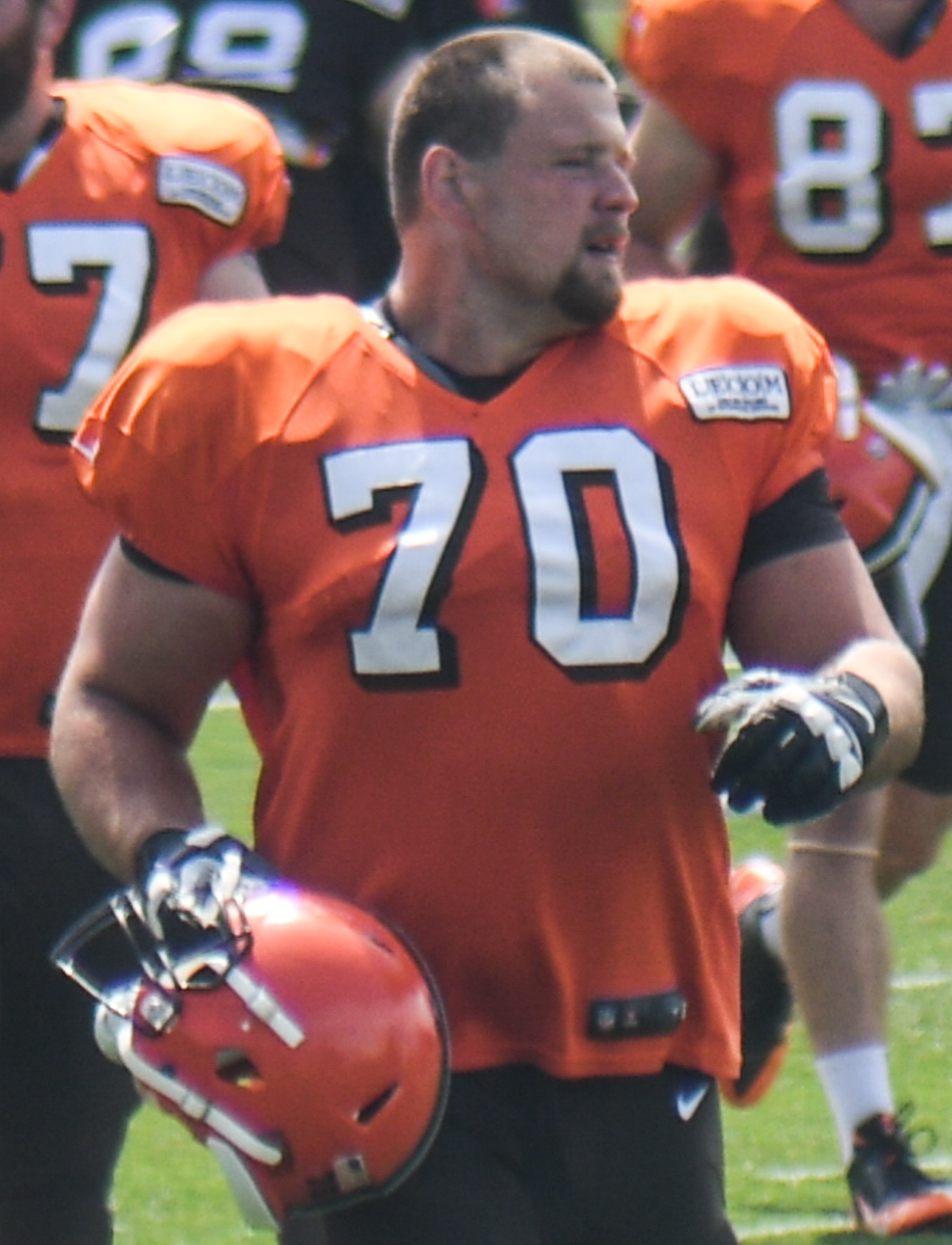 2017 training camp